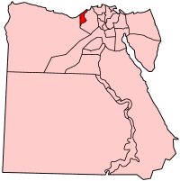 Map of Egypt showing Al Iskandariyah (Alexandria) governorate. Made by User:Golbez based on PD maps.